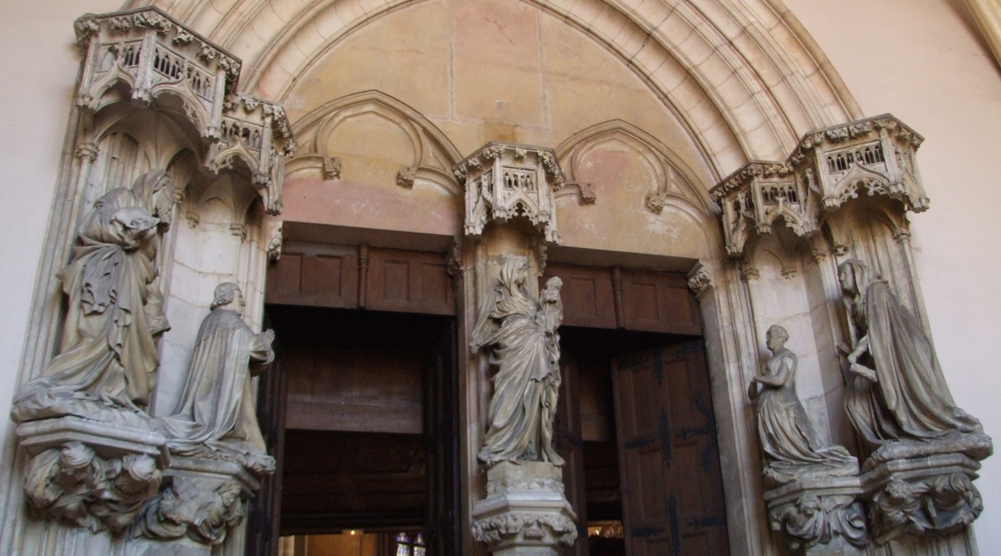 Dijon, Burgundy, FRANCE